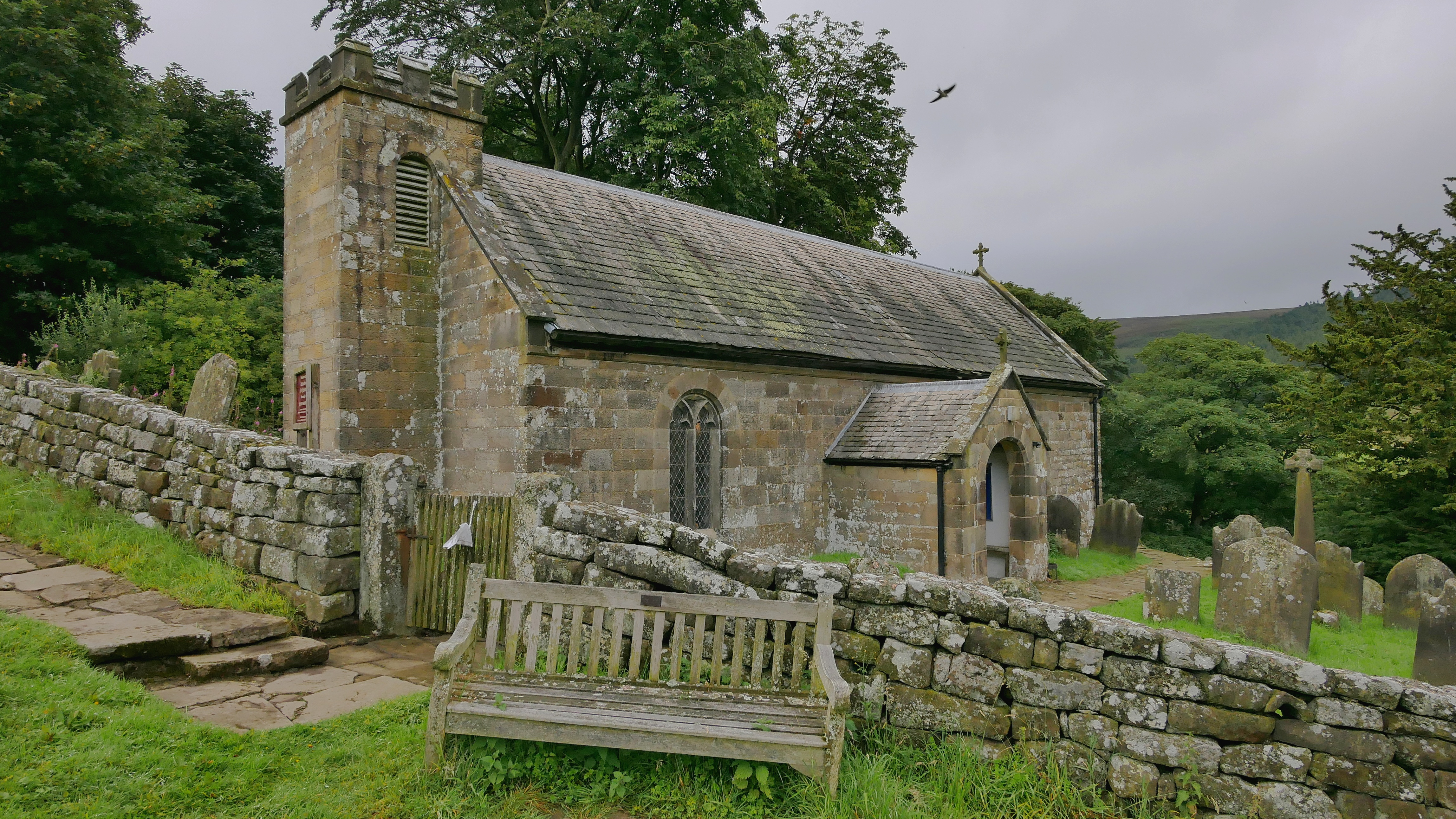 St Nicholas church, Bransdale, Norh Yorkshire Moors